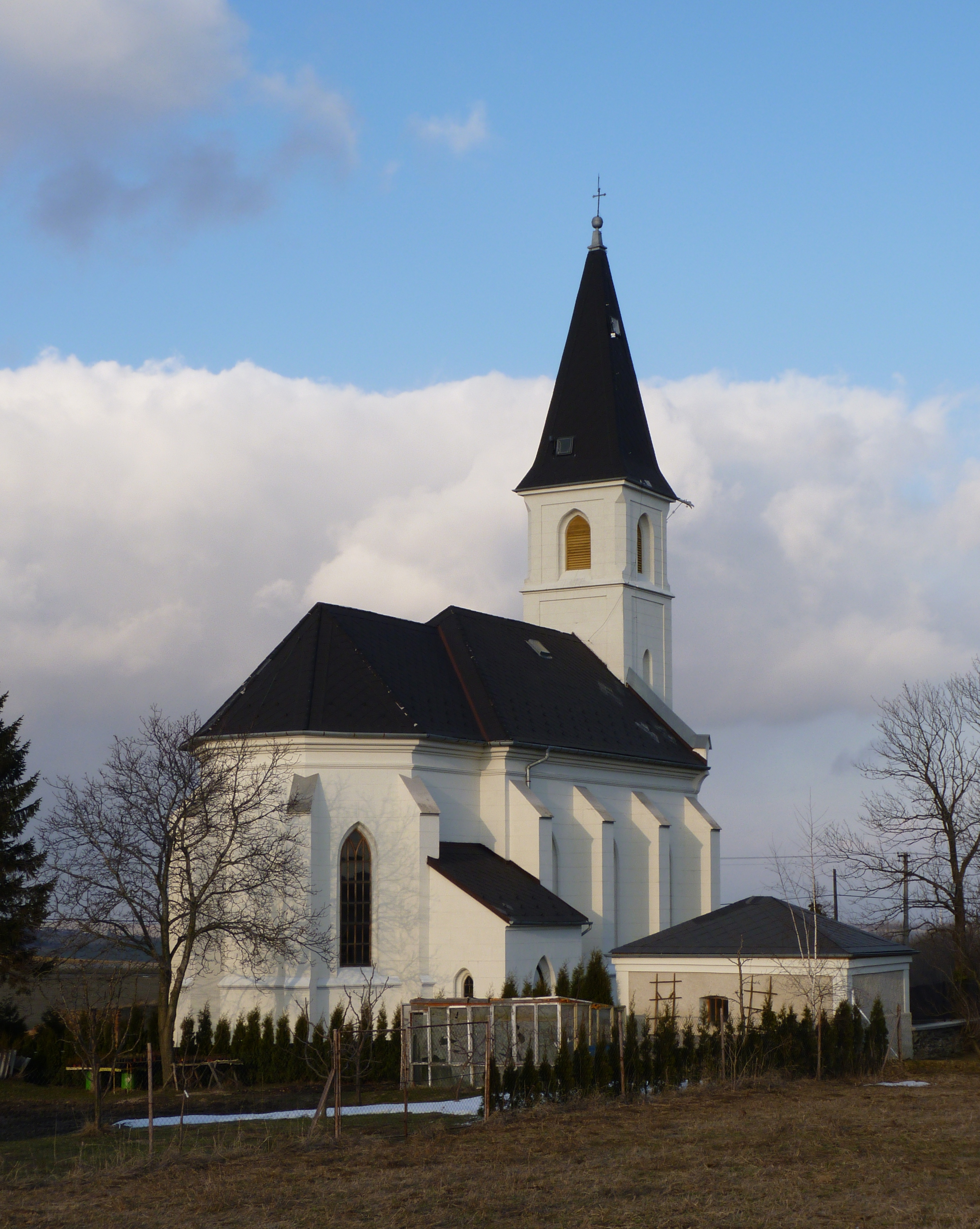 Church in Brumovice-Úblo, Opava District, Moravian-Silesian Region, Czech Republic